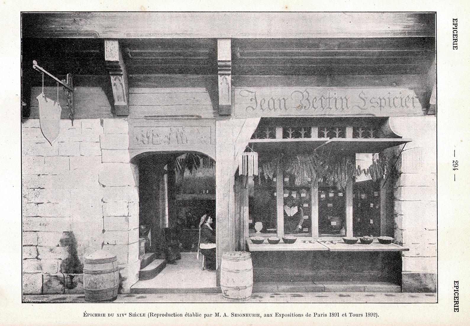 Reconstitution of a XIVth century French grocery by Albert Seigneurie. It was shown at the exhibitions of Paris (1891) and Tours (1892).